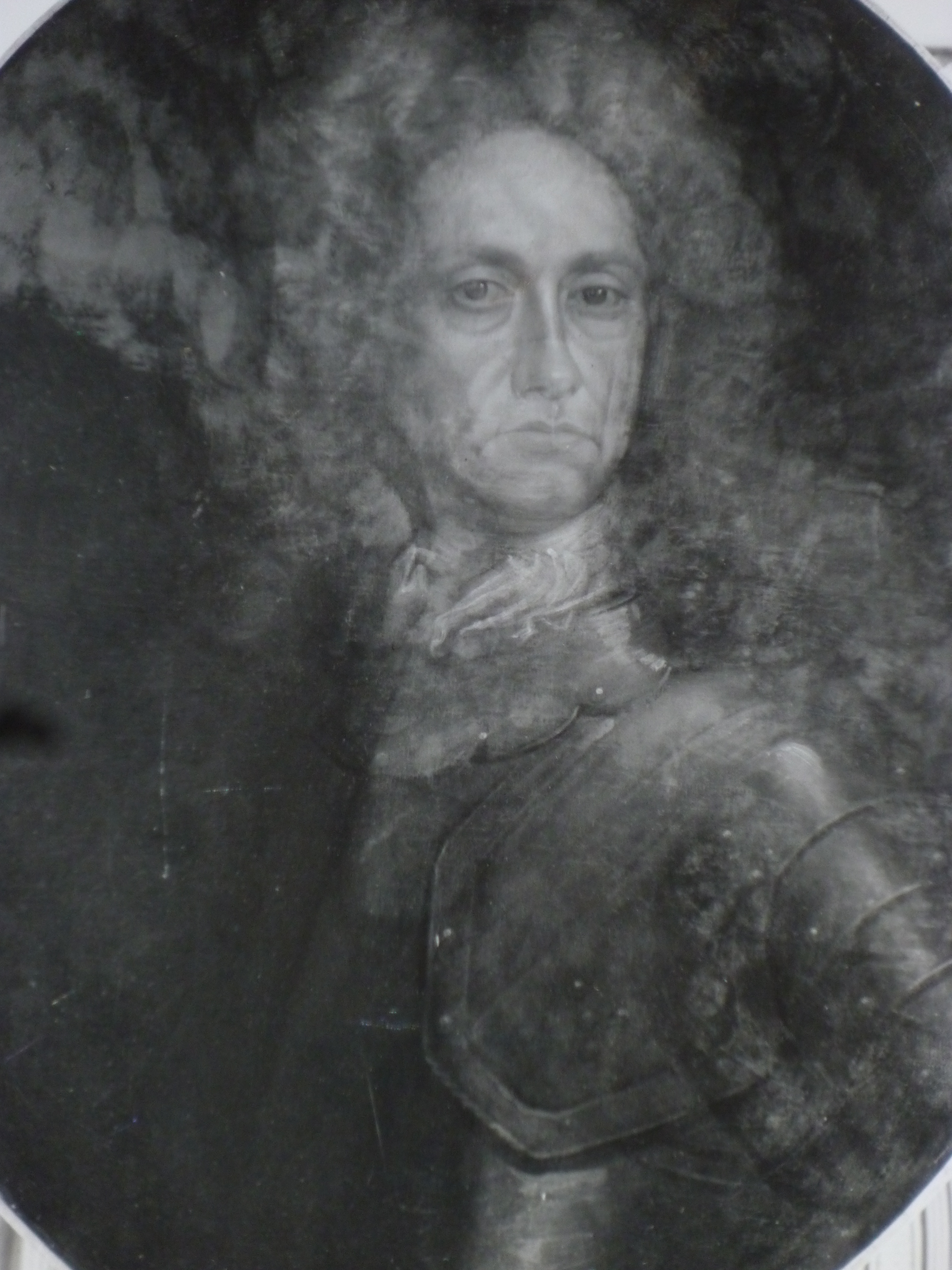 Brigadier general James Carmichael, 2nd Earl of Hyndford, by Medina.